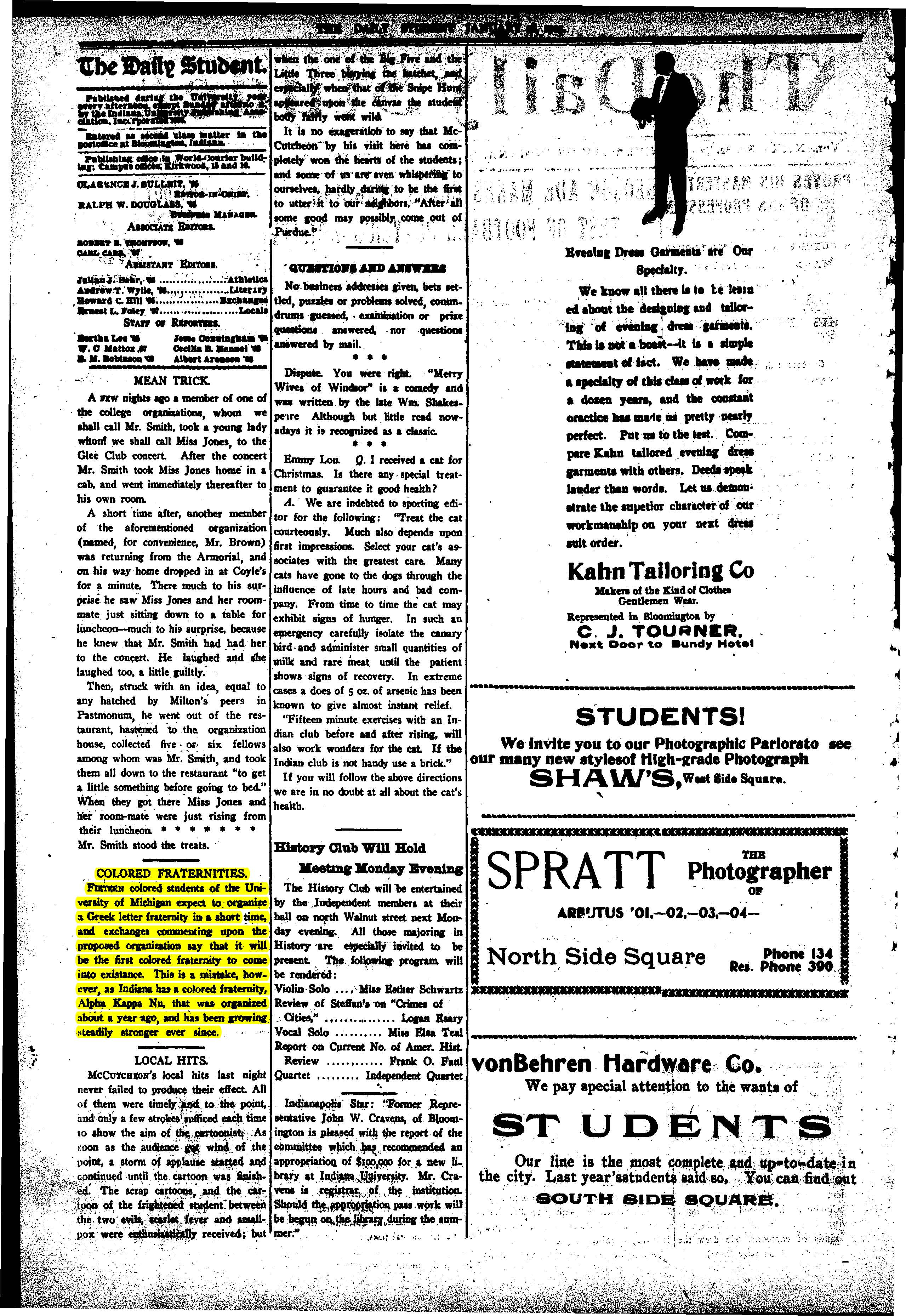 Newspaper Article about formation of the first African American Greek Letter Organization - Alpha Kappa Nu